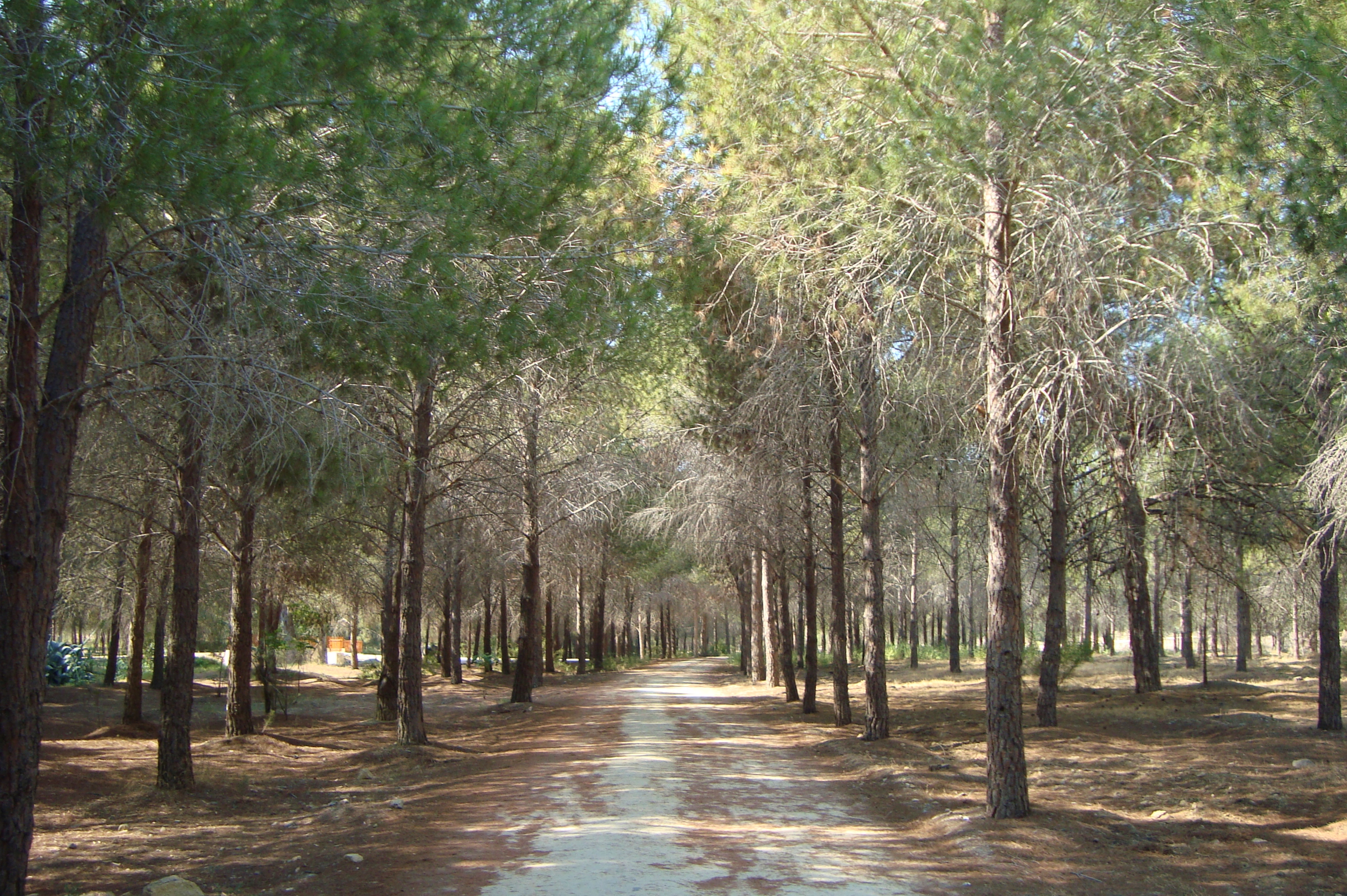 Alsos Forest Park forest path, during summer, in Nicosia - Republic of Cyprus.